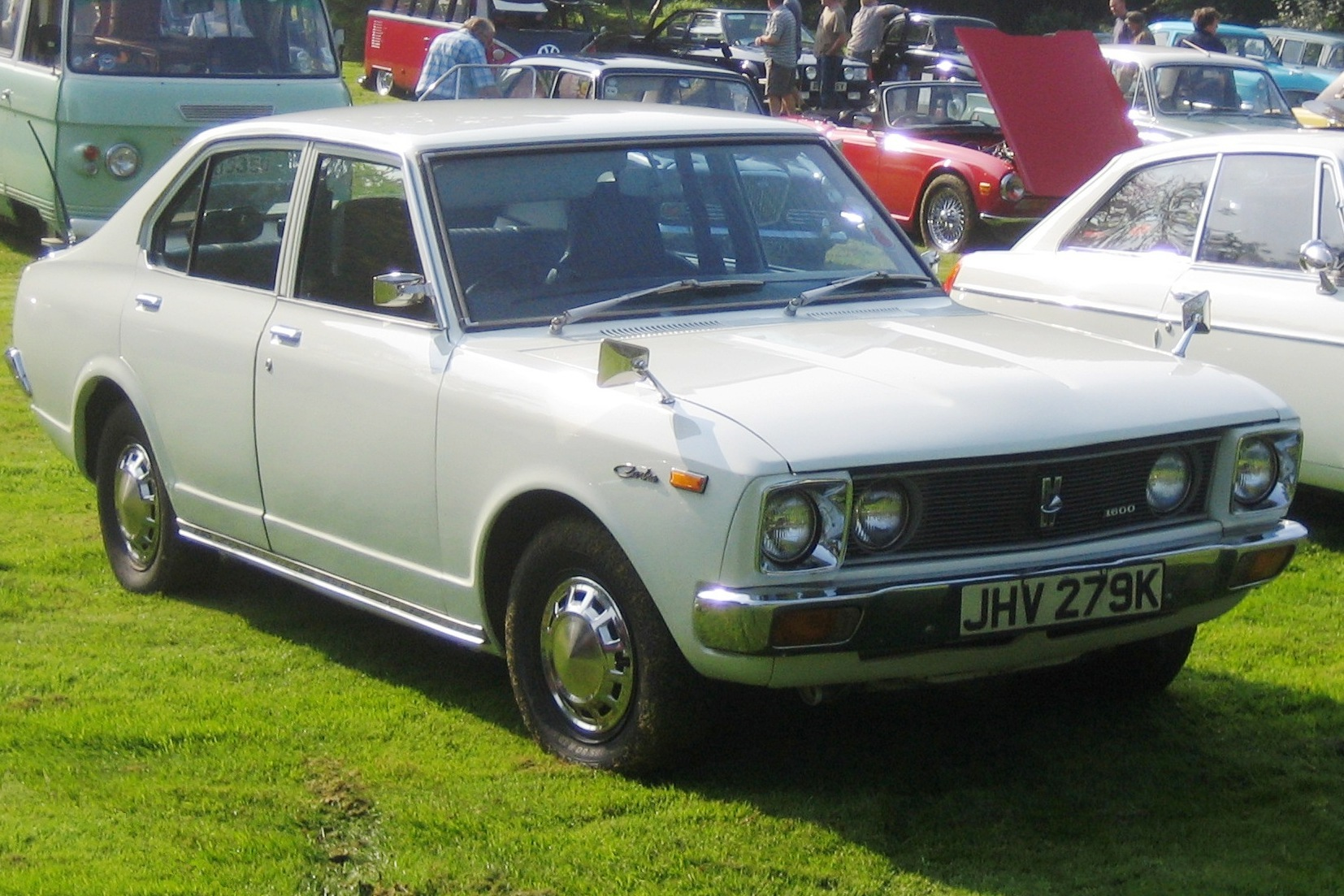 Toyota Carina in Castle Hedingham